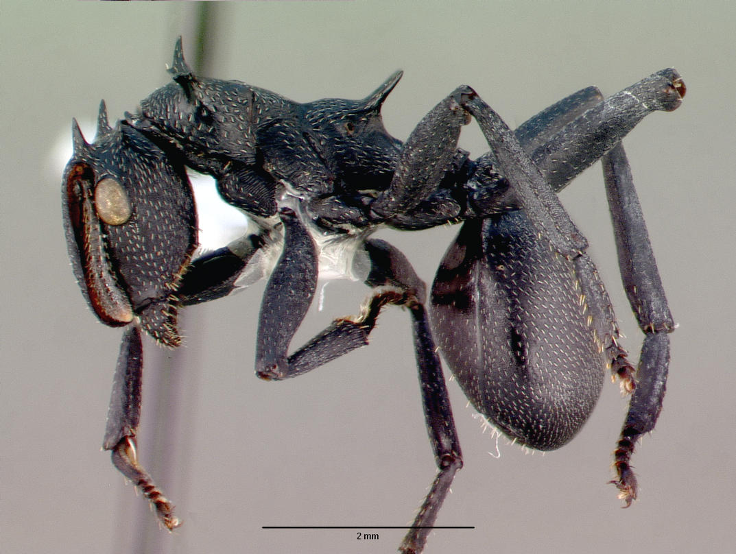 Profile view of ant Cephalotes atratus specimen casent0010676.